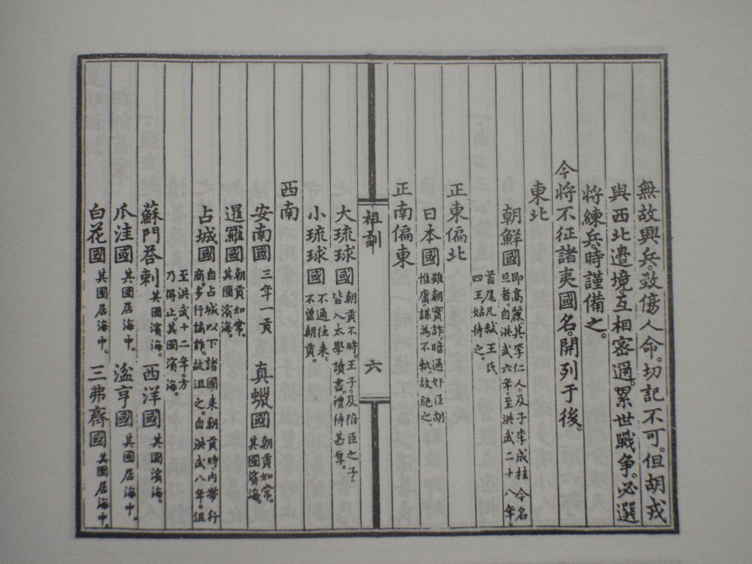 A part of "Record of the Ancestor's Instructions" (as known as "Huang Ming Zhu Xun" in Chinese) written by Zhu Yuan Zhang, and published in the late 14th century, Ming Dynasty China.